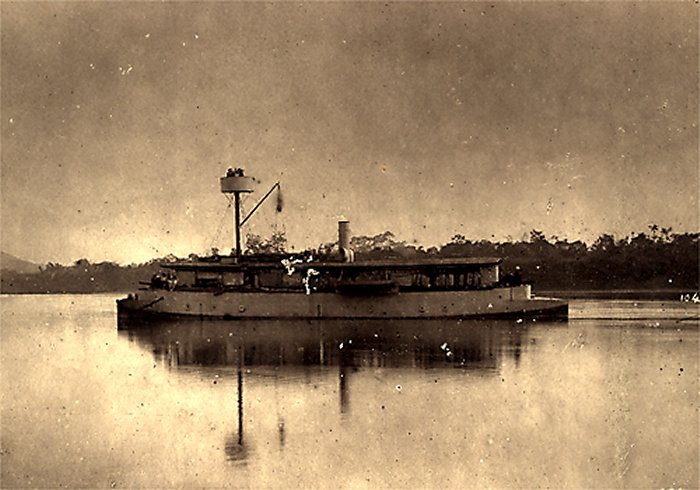 Photograph of the French gunboat Mutine in Tonkin, 1884